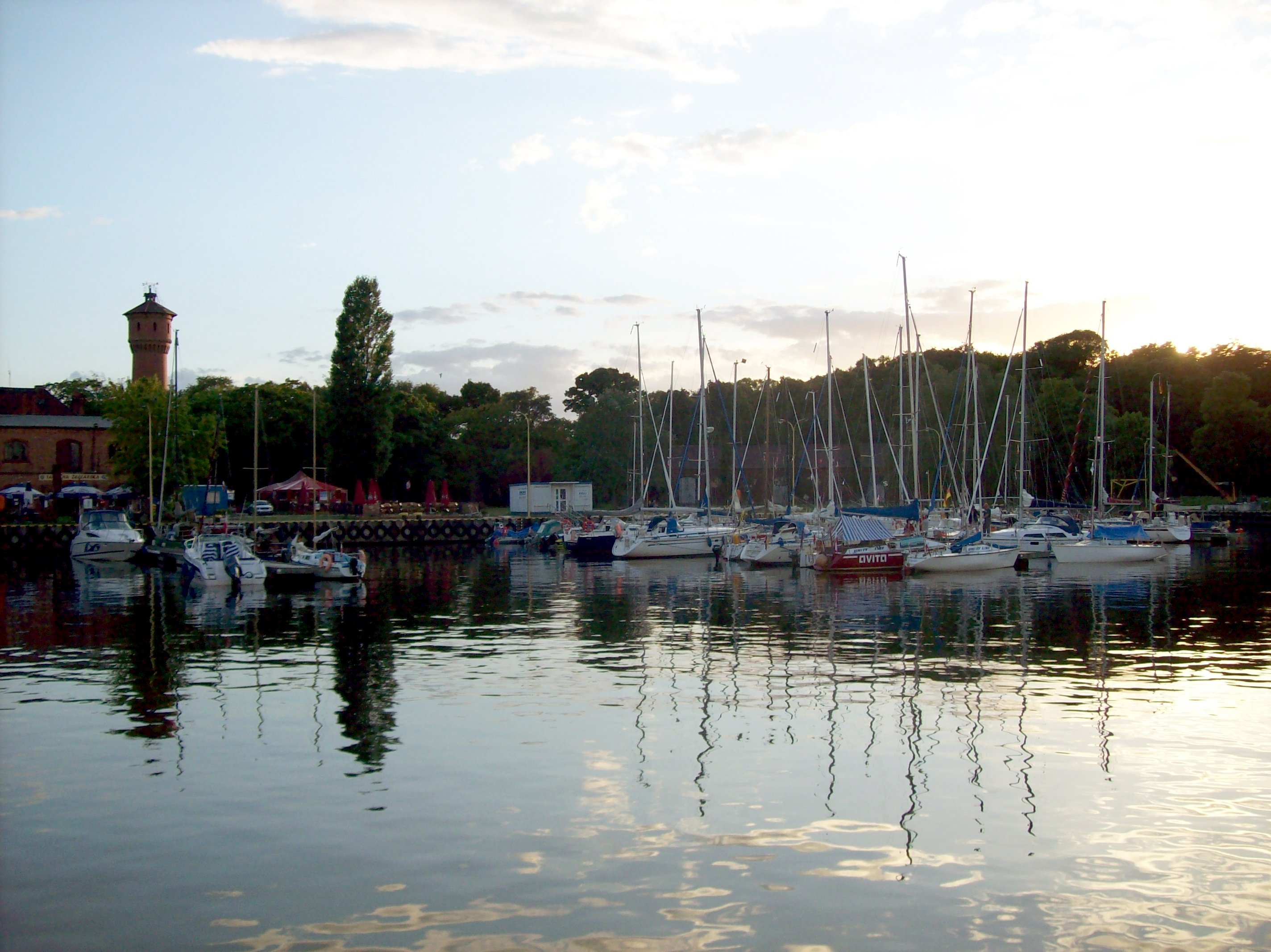 Sailor marina in Świnoujście